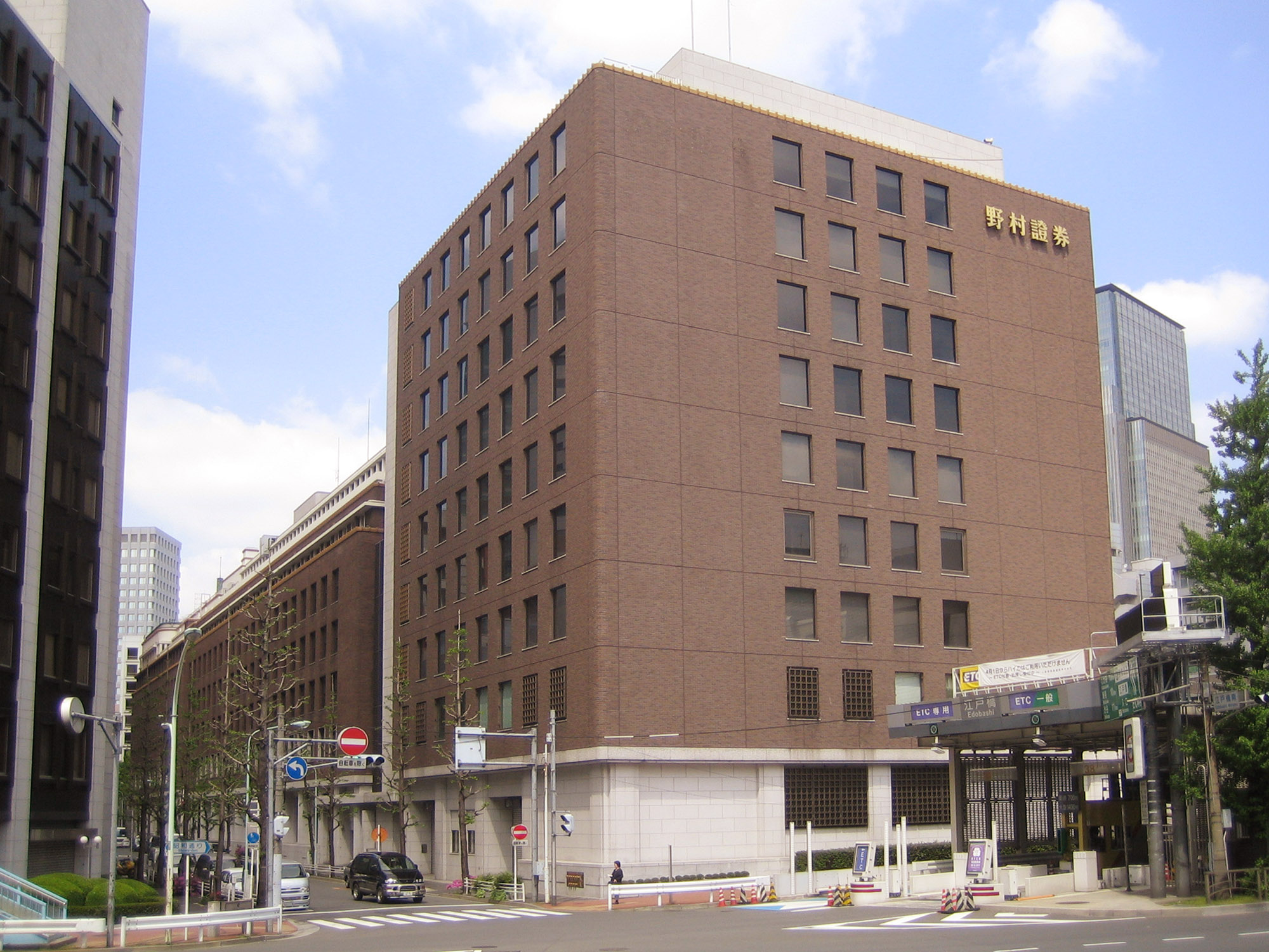 Nihonbashi Nomura Building, home for Nomura Holdings and Nomura Securities, in Chuo Ward, Tokyo, Japan